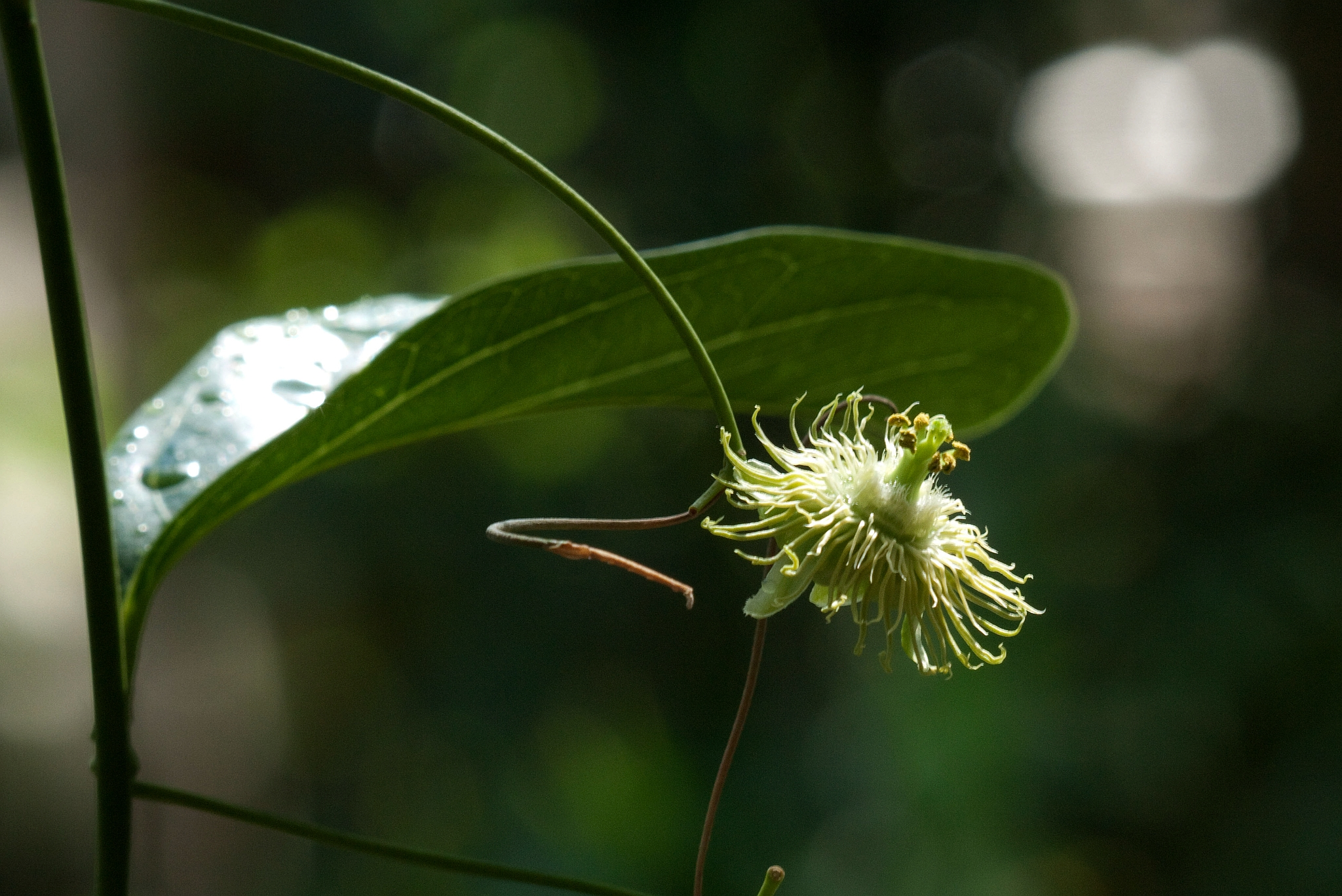 Botanic Gardens, Sydney - in the Pyramid Glasshouse. The flowers are small, only about 2 cm diameter. This was tagged just "Passiflora sp." and, being in the Pyramid, must be an Australian native. With these tiny flowers and unlobed leaves it obviously has no relationship with any of the 3 native species I am aware of, namely P. aurantia, P. cinnabarina, P. herbertiana. So I tried a Google search on "passiflora new species Queensland" (assuming it comes from NE Qld) and turned up the name Passiflora kuranda, the first Australian species in subgenus Tetrapathaea to be recognised and named. See abstract of 2009 journal article at This subgenus was formerly ranked as a genus, of a single species from New Zealand, Tetrapathaea tetrandra. I think it's a fair bet that this plant is Passiflora kuranda. Now confirmed as P. kuranda by Krosnick, author of this species - see further comment by English_Passiflorist.